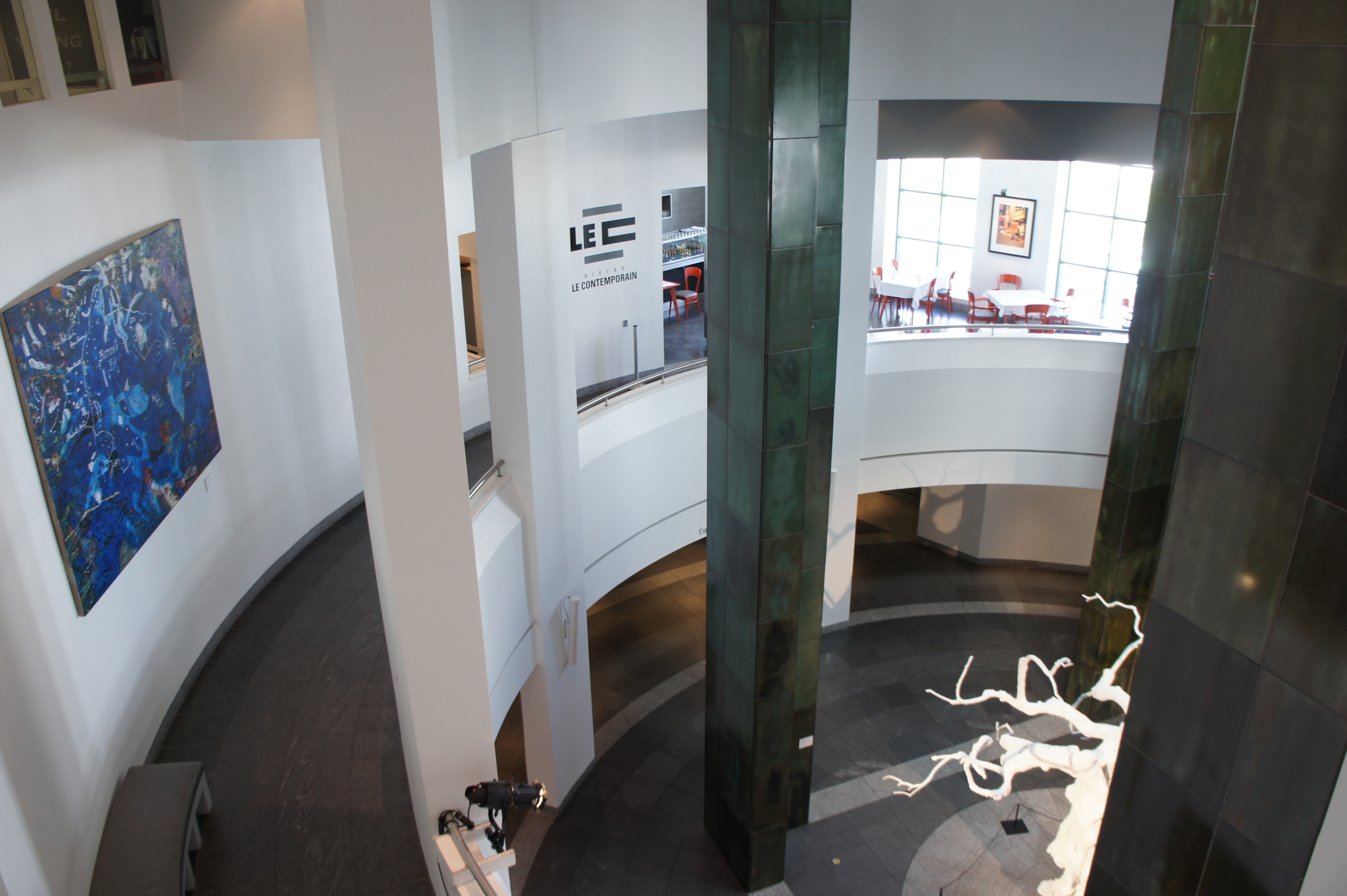 The interior of the Musée d'art contemporain de Montréal in August 2011.